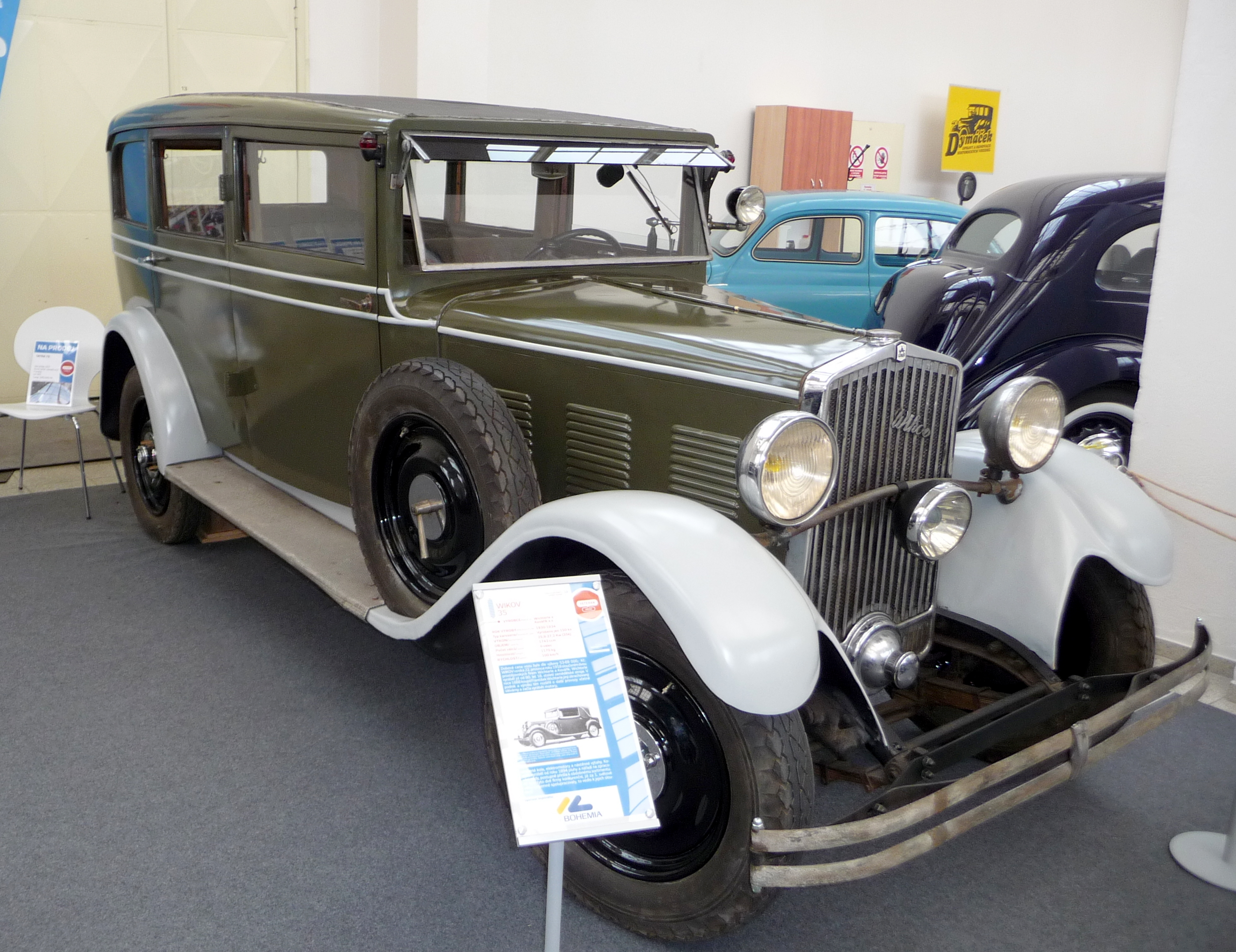 Wikov 35, year 1930, Classic Show Brno 2011, The Brno Exhibition Grounds -10 -5 -3 -2 ◄ ► +2 +3 +5 +10